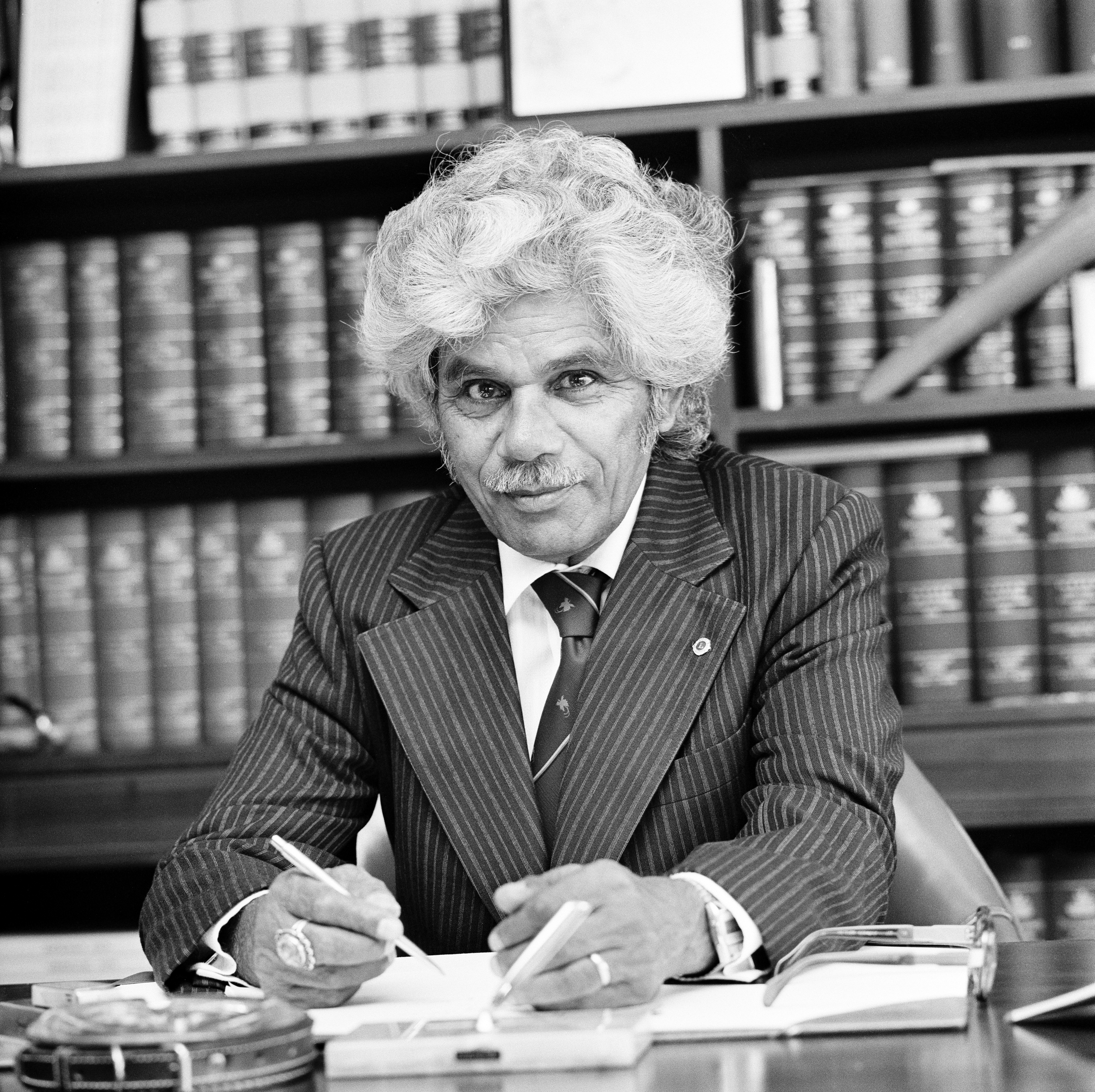 Senator Neville Bonner seated circa 18 December, 1979